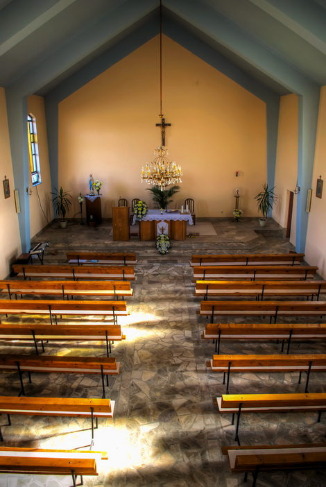 Inside of the St. Antony of Padua church in village Cerov Dolac,municipality of Grude